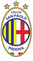 Logo of Calcio San Paolo Padova (a football club from Padua).